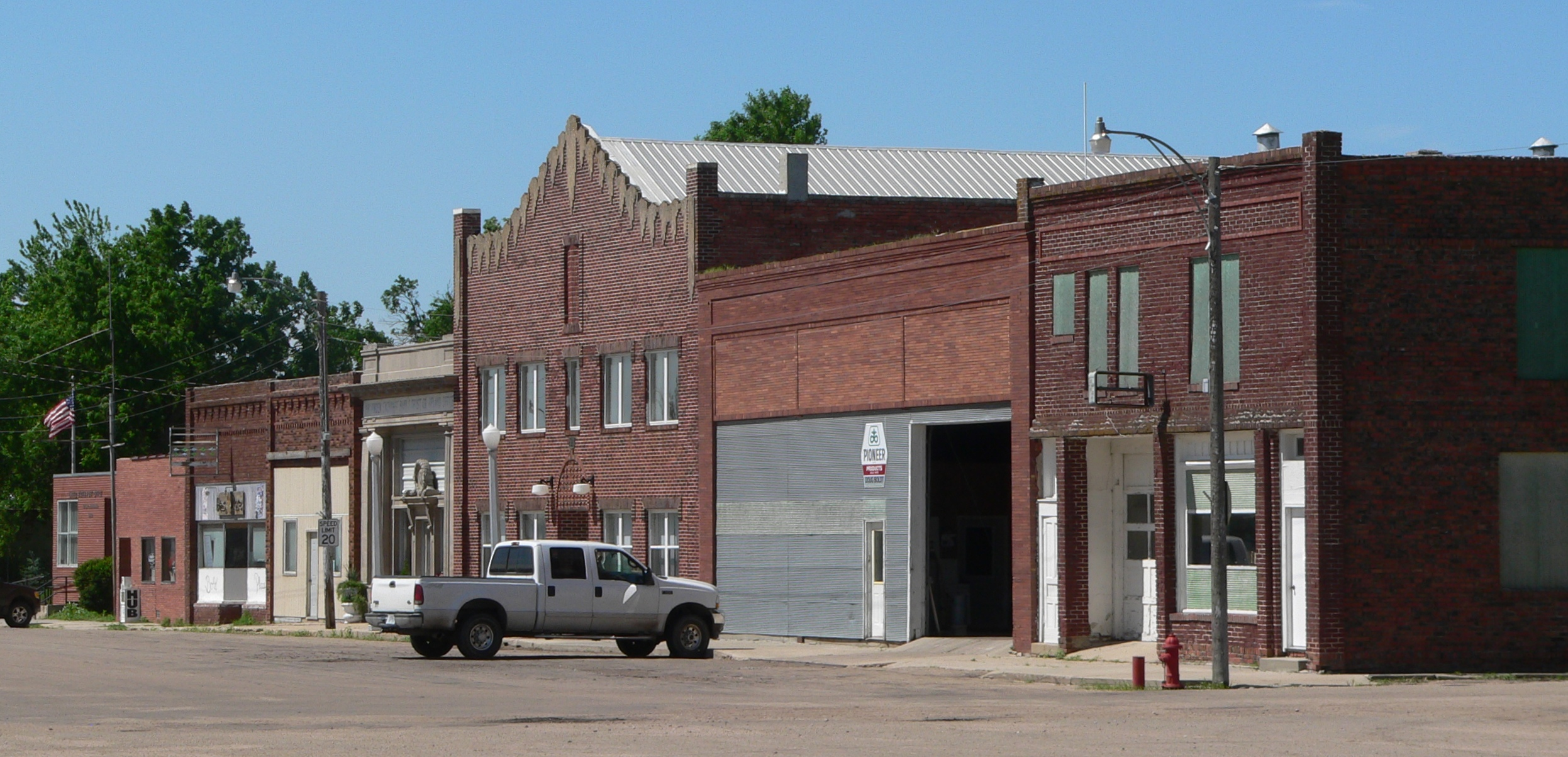 Downtown Upland, Nebraska: west side of Prairie Avenue, looking southwest from about Railway Street.